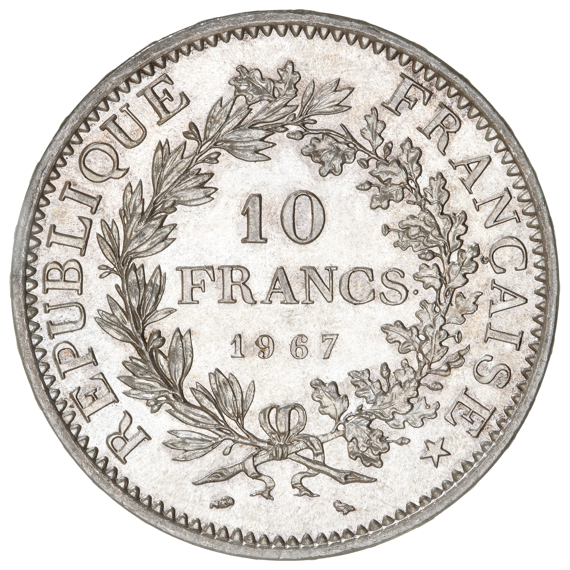 Reverse of the 10 French francs Dupré's Hercules type coin, 1967 (F.364/6). Silver, diameter 37 mm, 25 g.